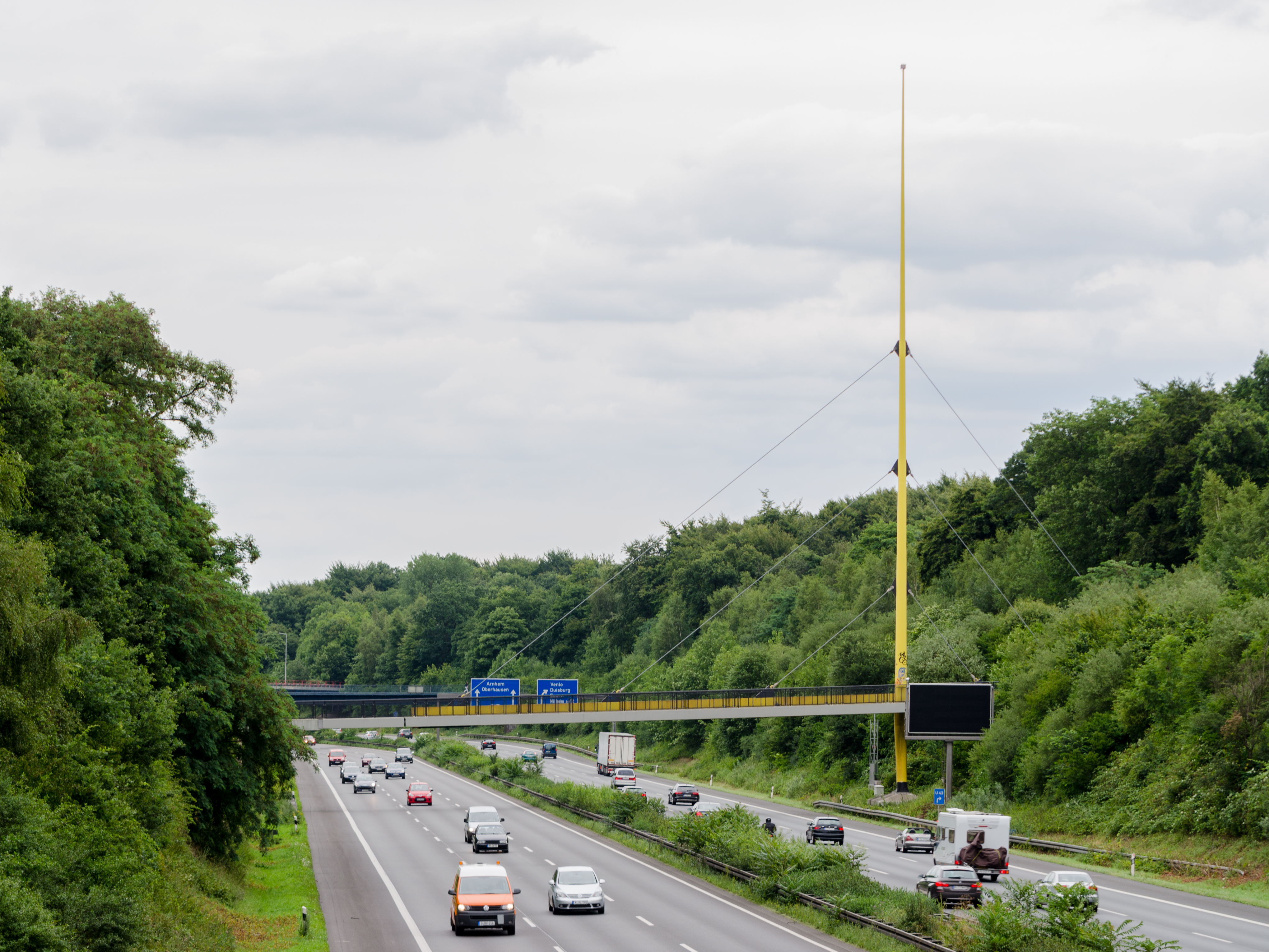 Duisburg (North Rhine-Westphalia, Germany) – borough Mitte, district Neudorf-Nord – Expo Bridge